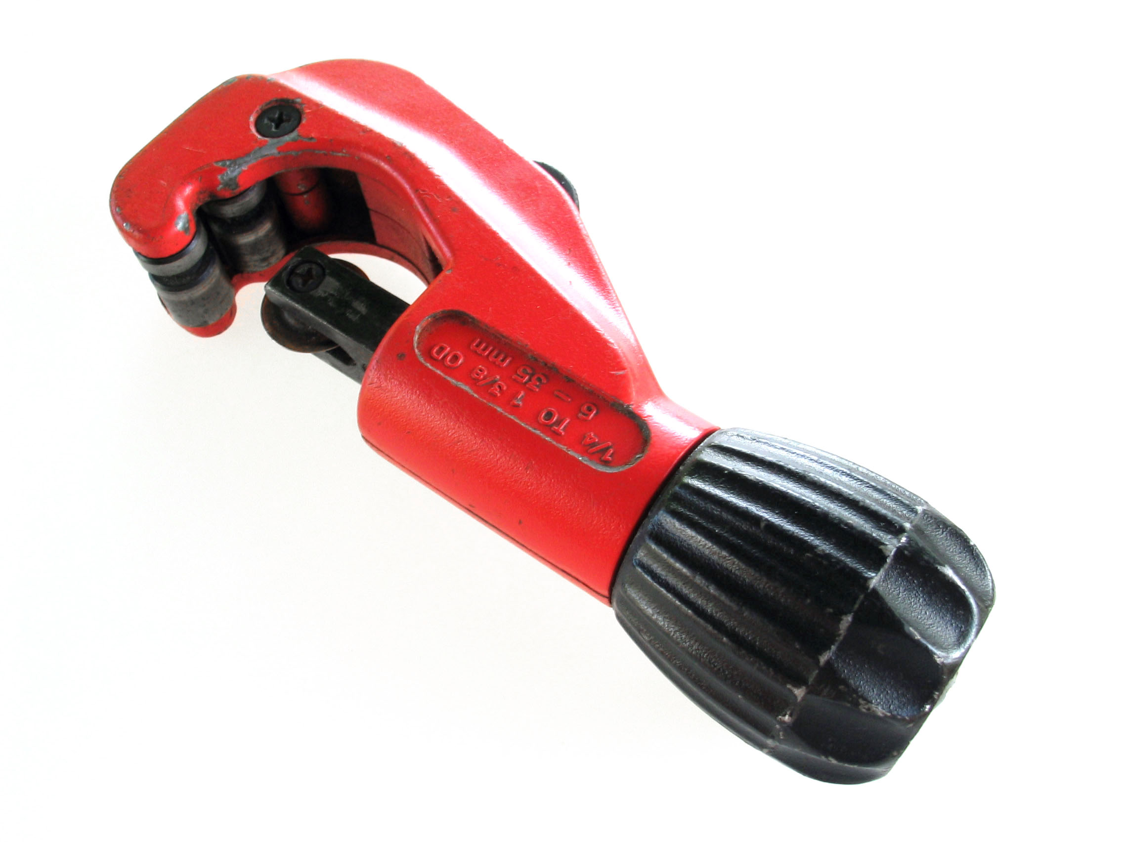 Pipecutter, photo taken in Sweden